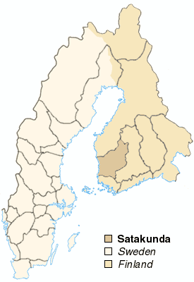 Map Historical Provinces of Finland, Satakunda © Mic, 2003 Released under the GNU Free Documentation License See also: Provinces of Sweden